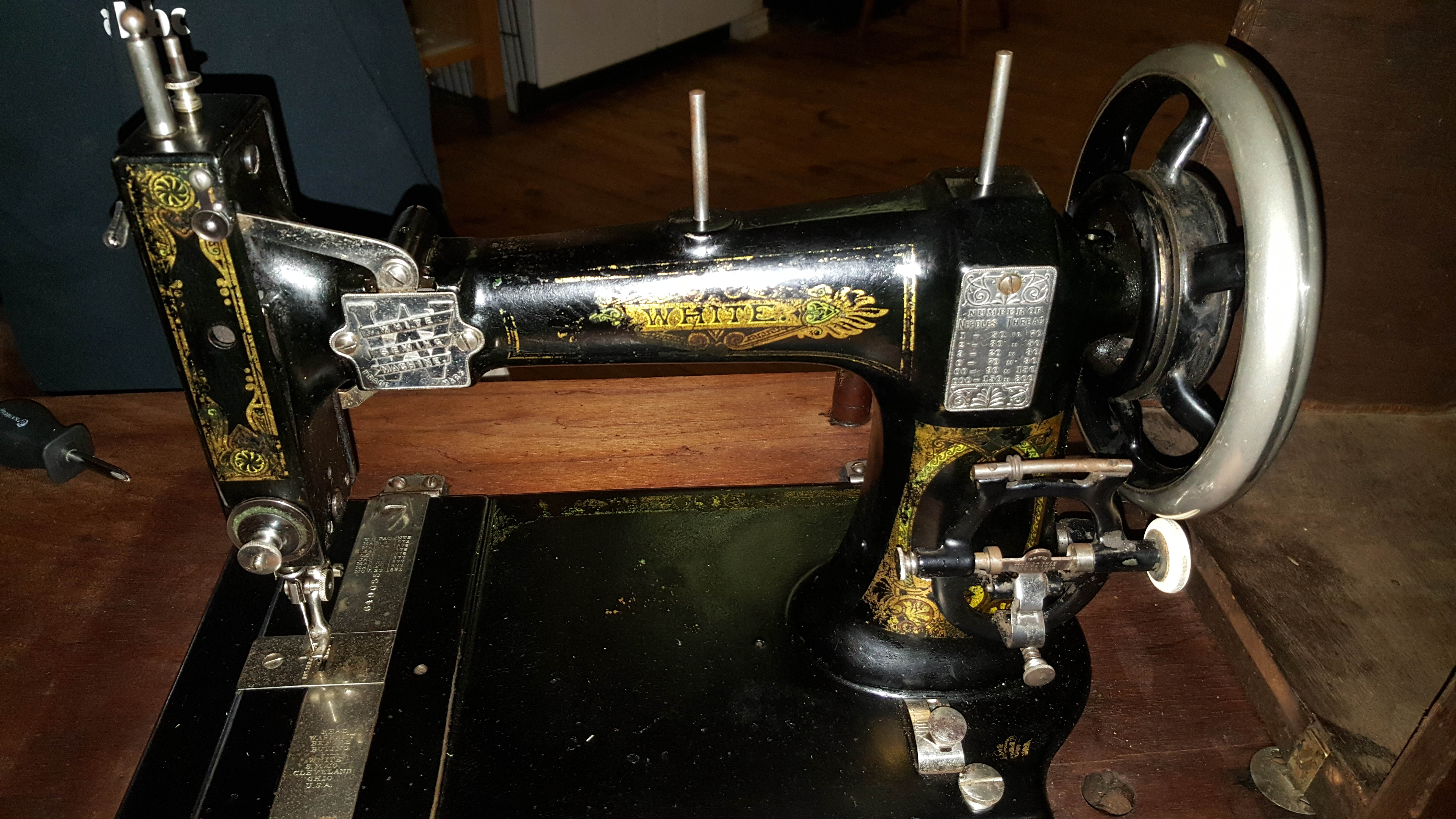 Antique White SMC VS IIa treadle sewing machine, believed to be manufactured between 1886 and 1889. Purchased from German family from Minnesota.